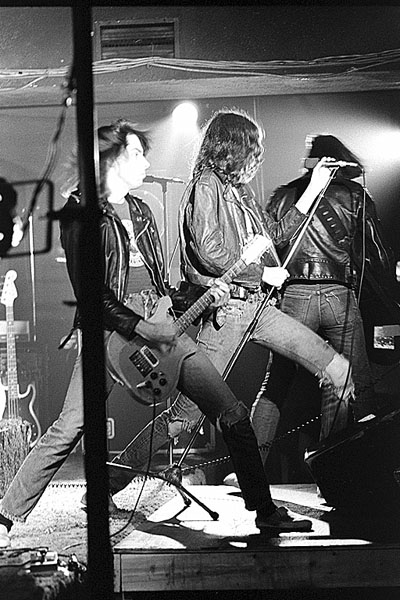 Johnny & Joey Ramone with The Ramones, July 1, 1977 Kelly's Pub St. Paul, MN.